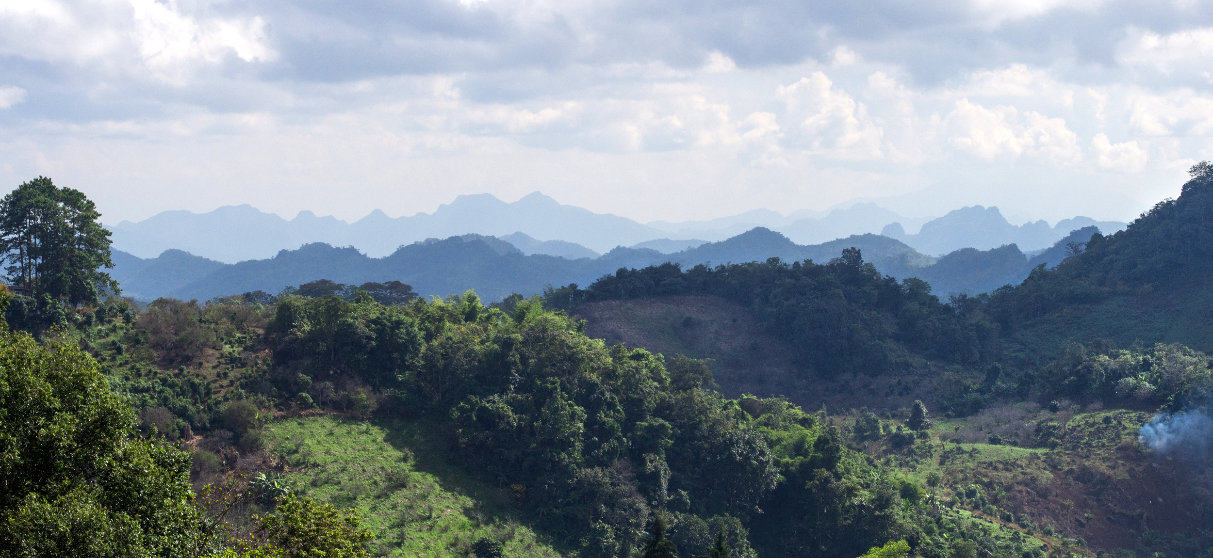 The Daen Lao Range as seen from road 1340 in the western tip of Chai Prakan District, Chiang Mai Province, Thailand.